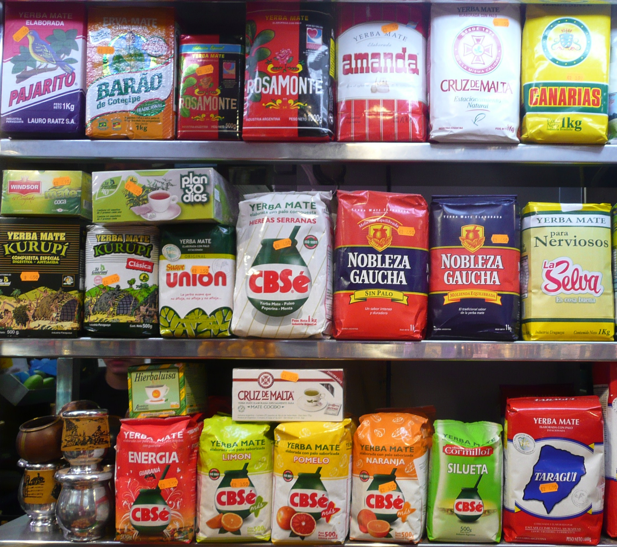 Yerba Mate for sale in the open air market Mercado de la Boqueria in Barcelona, Spain.